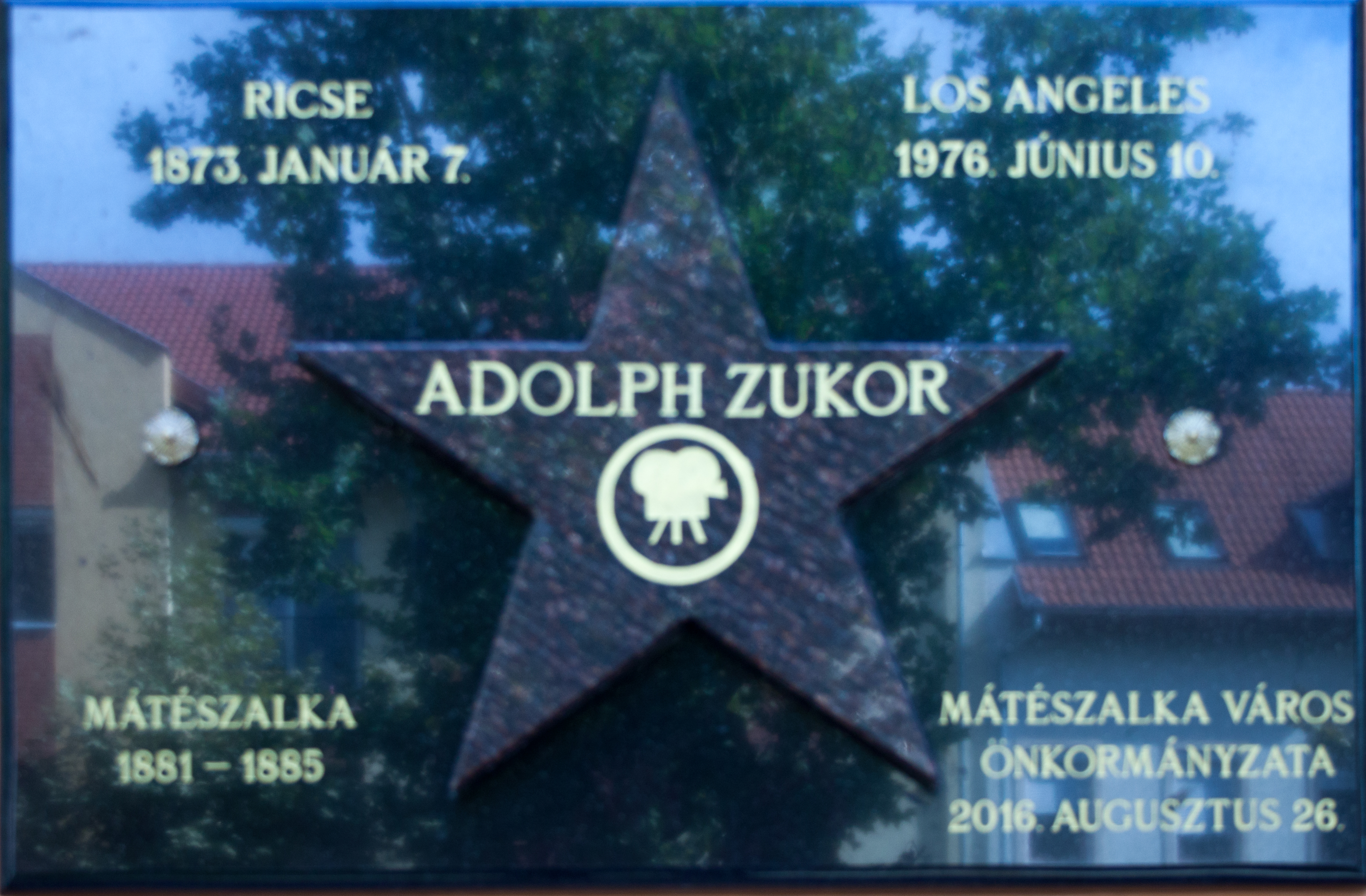 Memorial plaque of Adolph Zukor on the wall of the Synagogue in Mátészalka